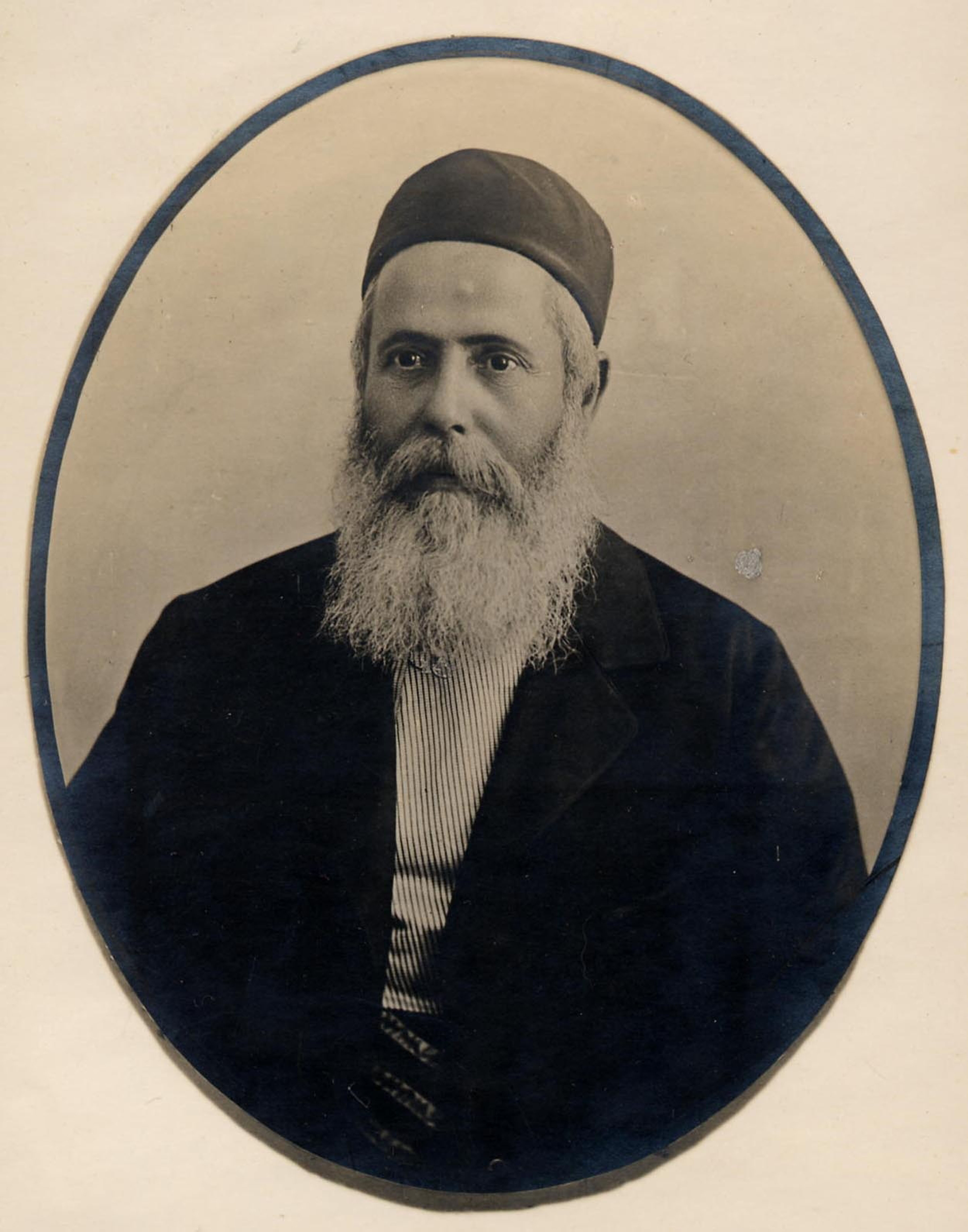 Portrait of Aharon Chelouche, late 19th century.